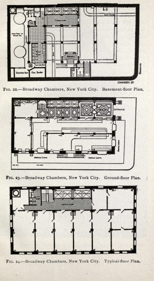 Floor plans of Broadway Chambers Building, 277 Broadway at Chambers Street, New York. Opened 1900. Architect: Cass Gilbert.